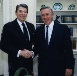 Ronald Reagan and James Wilson Rawlings in Oval Office in 1987